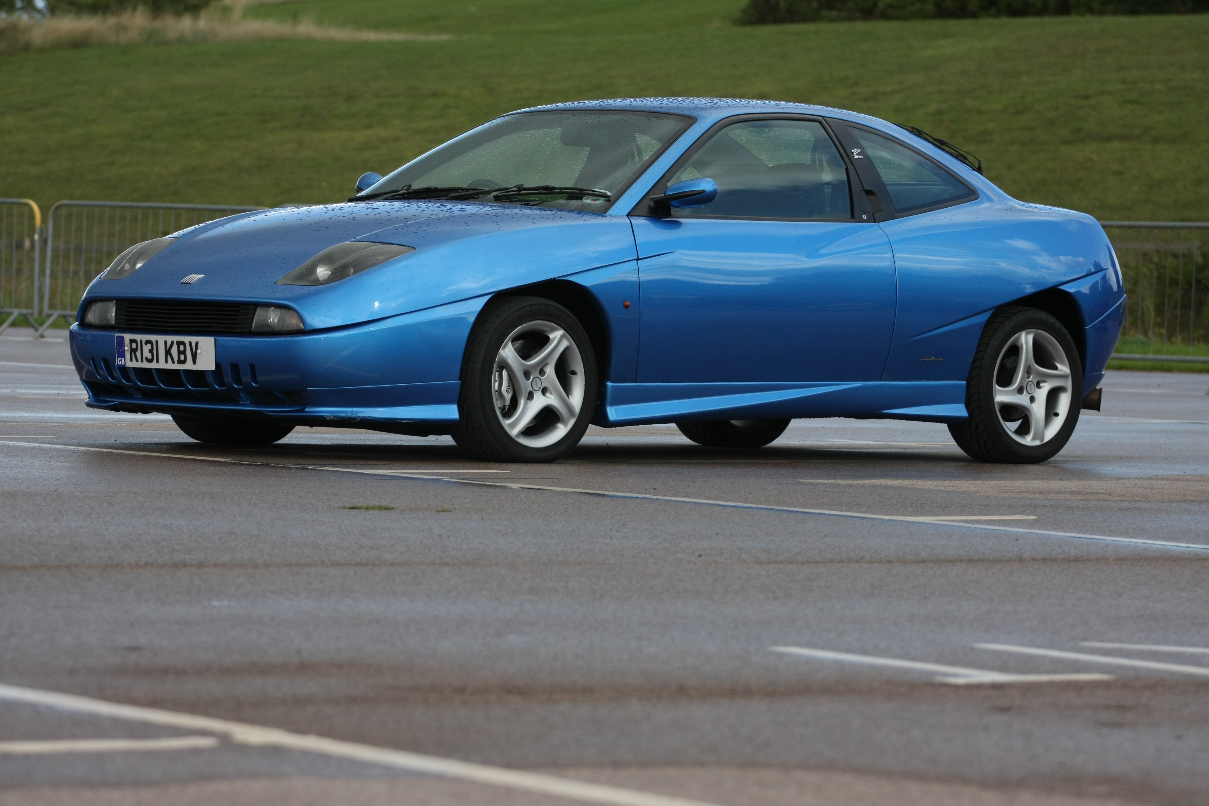 Auto Italia Autumn Italian Car Day Heritage Motor Centre Gaydon 2010